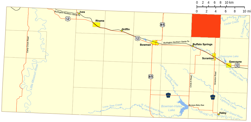 Map of Bowman County, ND, with Stillwater Township highlighted